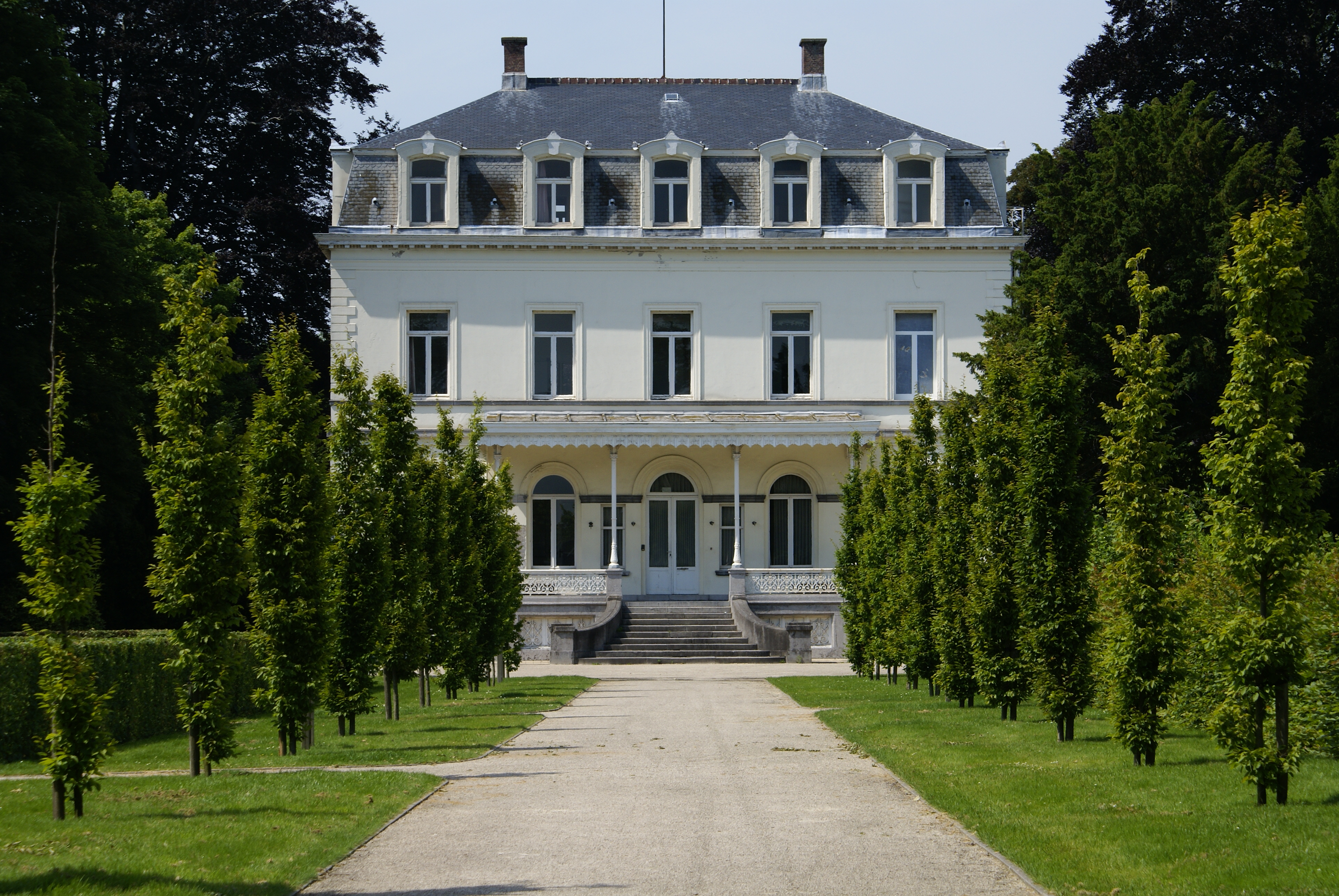 Kortrijk Castle, Belgium